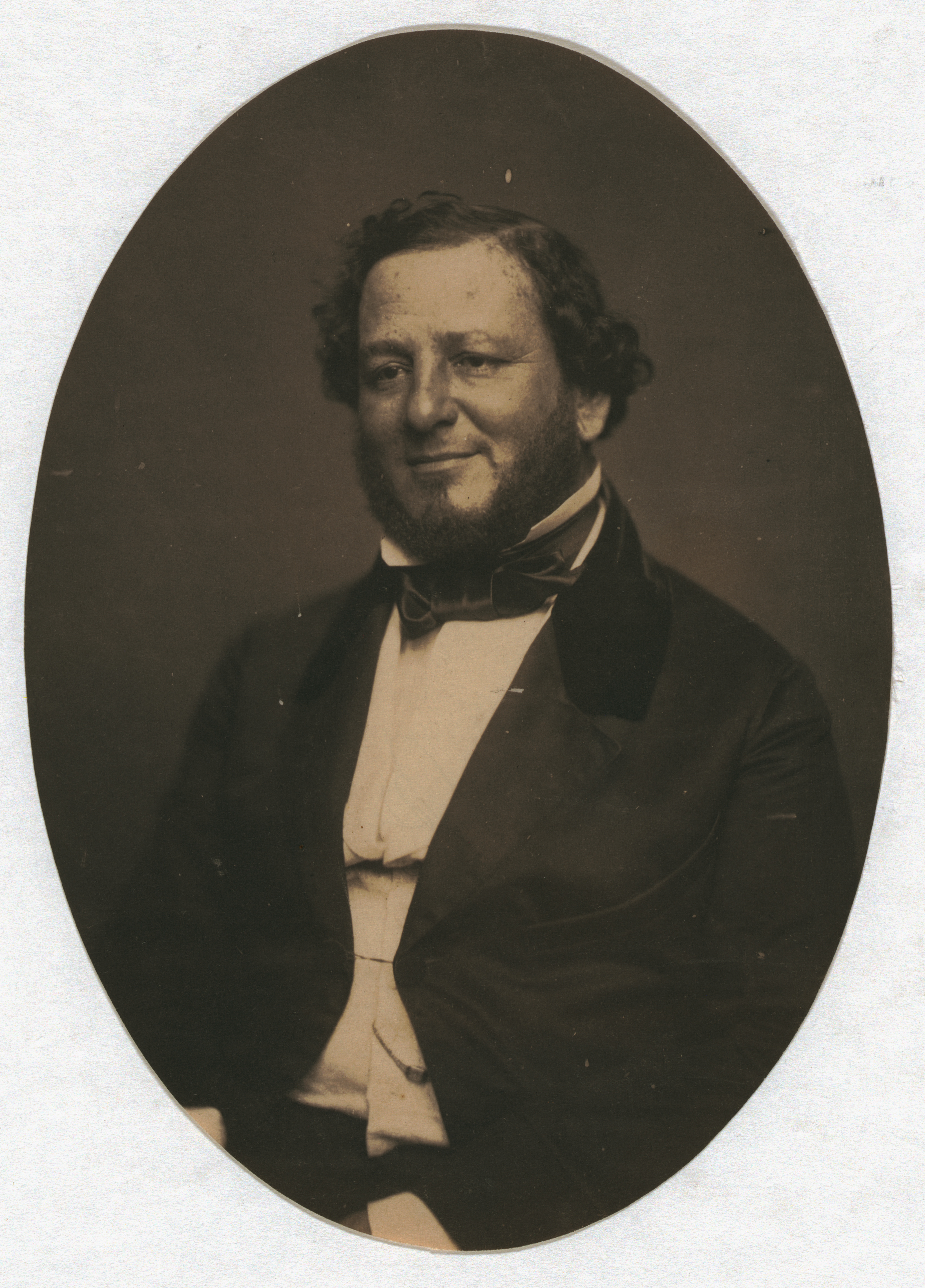 Judah P. Benjamin, Senator from Louisiana.